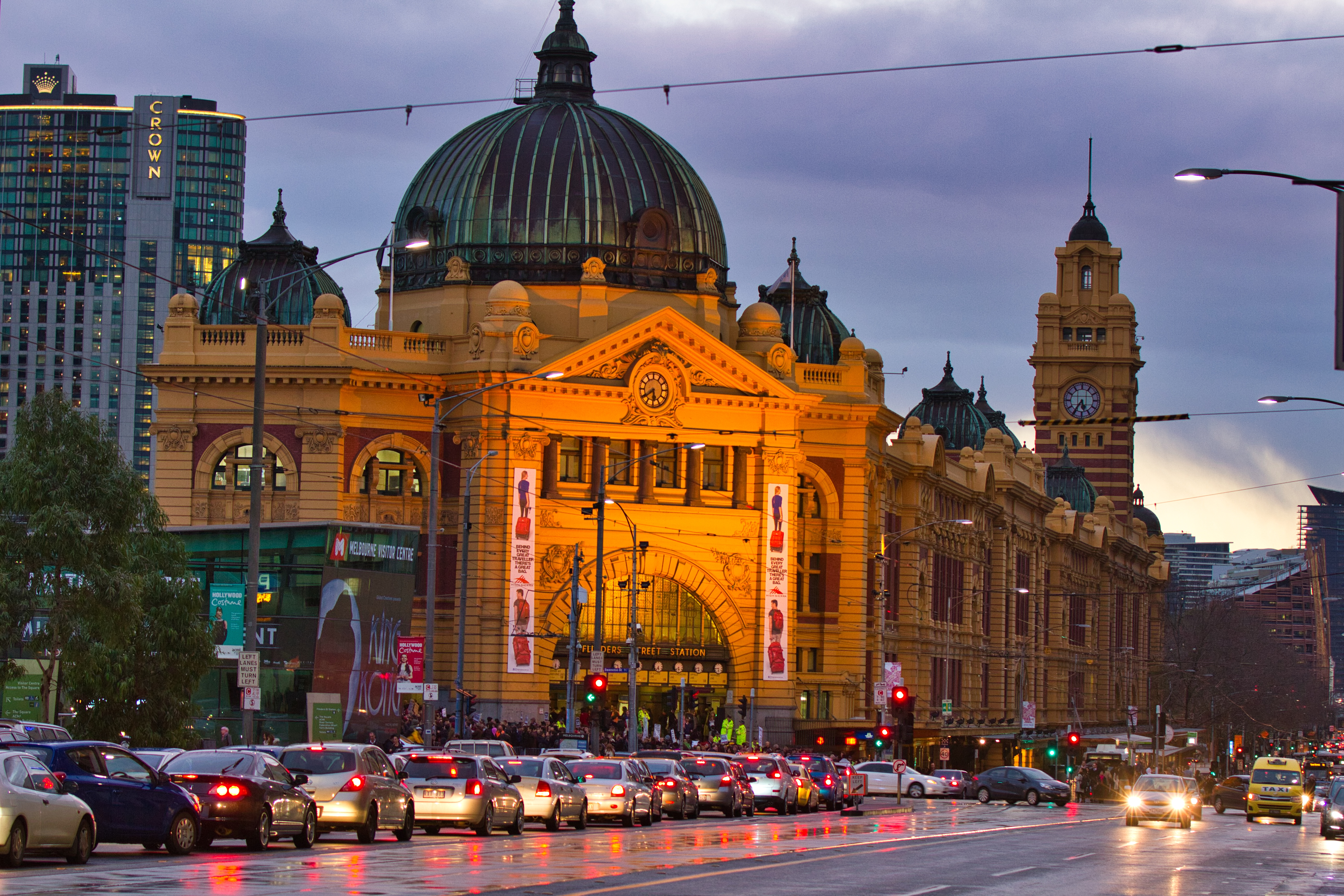 Dusk view of Flinders Street Station in Melbourne, Australia